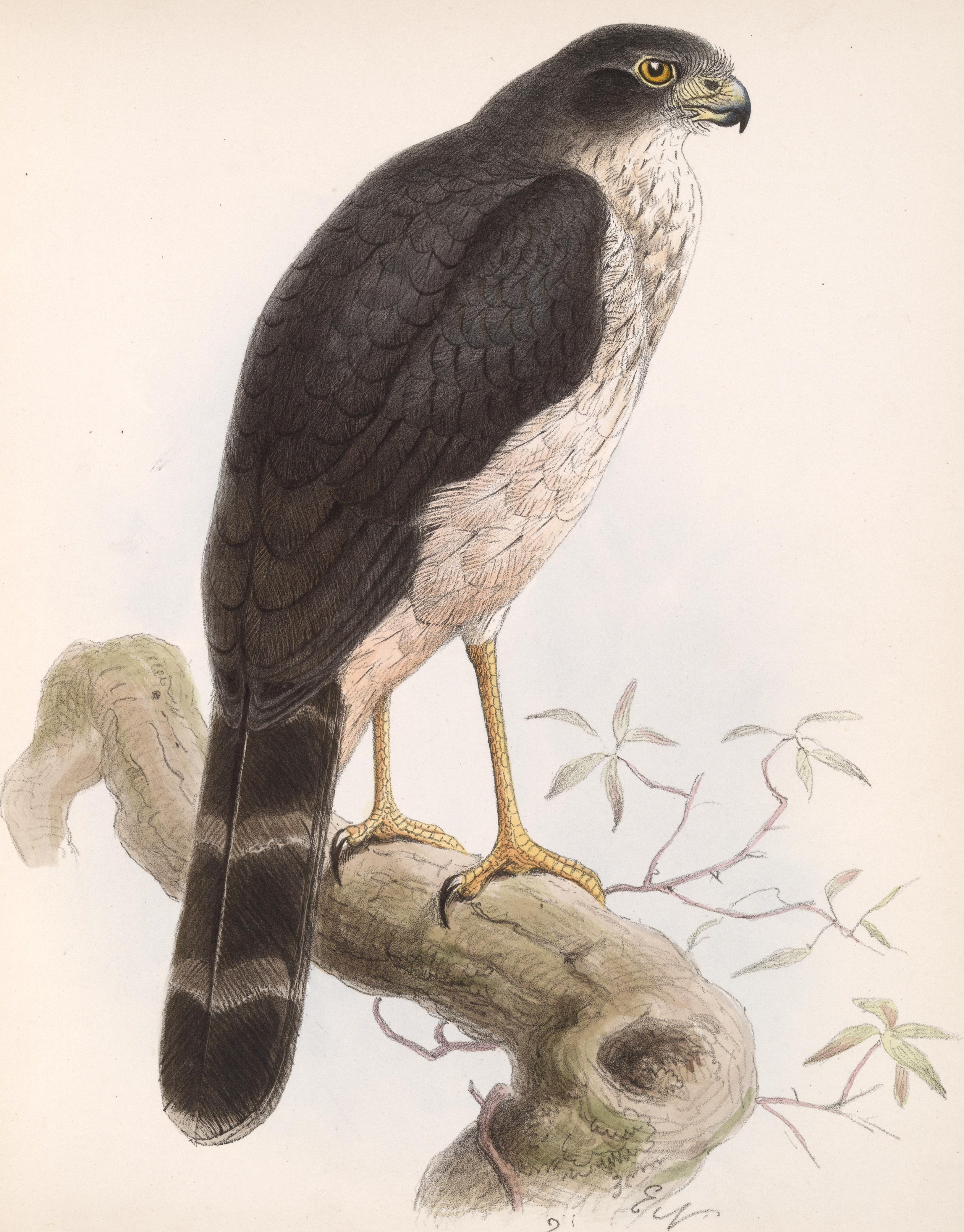 « Micrastur mirandollii » = Micrastur mirandollei (Slaty-backed Forest Falcon)